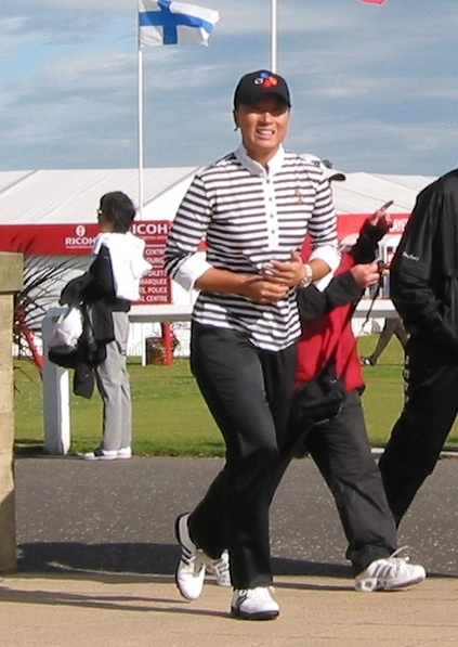 Se Ri Pak at the 2007 Womens British Open